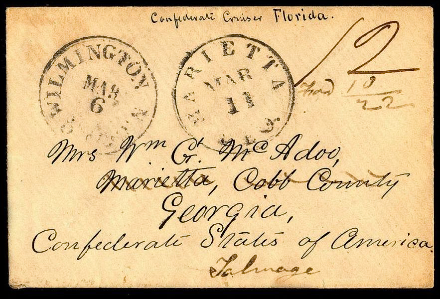 Confederate blockade cover, no stamp. Carried aboard the 'Florida', a the first of the CSA cruisers built in England. Armed and outfitted in Mobile, Alabama, the 'Florida' set out to sea in January 1863.